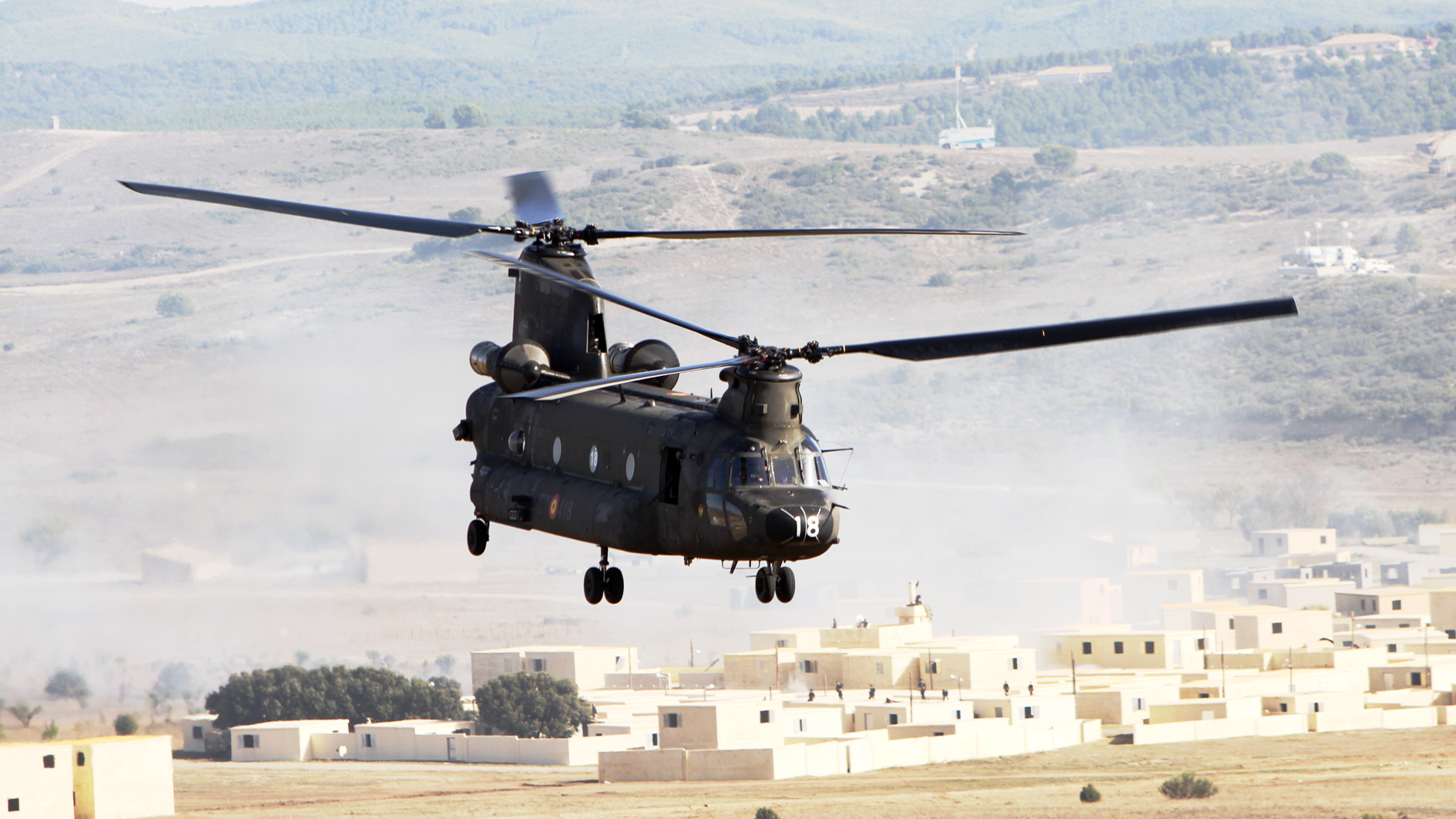 A Spanish Army Chinook helicopter at San Gregorio training area, Spain on November 04, 2015 during NATO Exercise Trident Juncture 2015 DV Day. NATO photo by Henk van der Velde